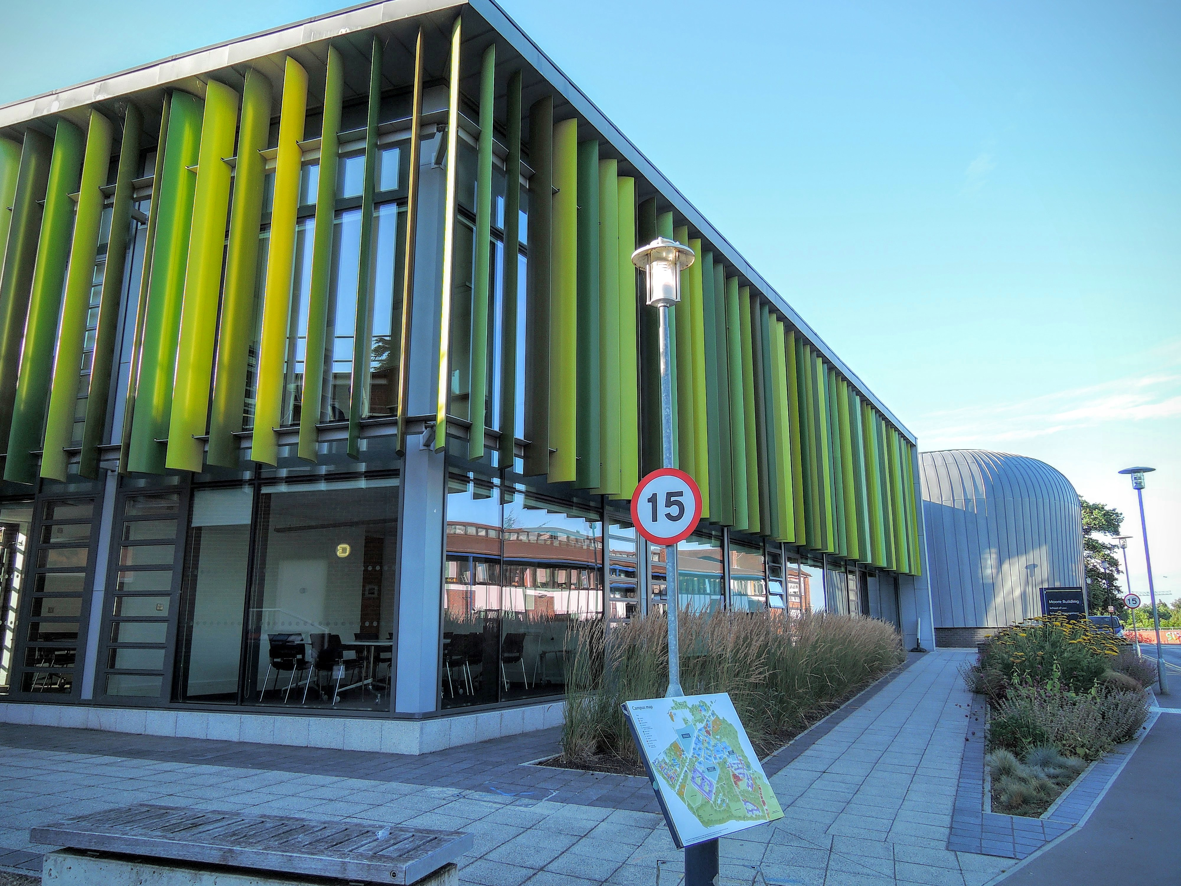 Royal Holloway university campus. Egham, UK